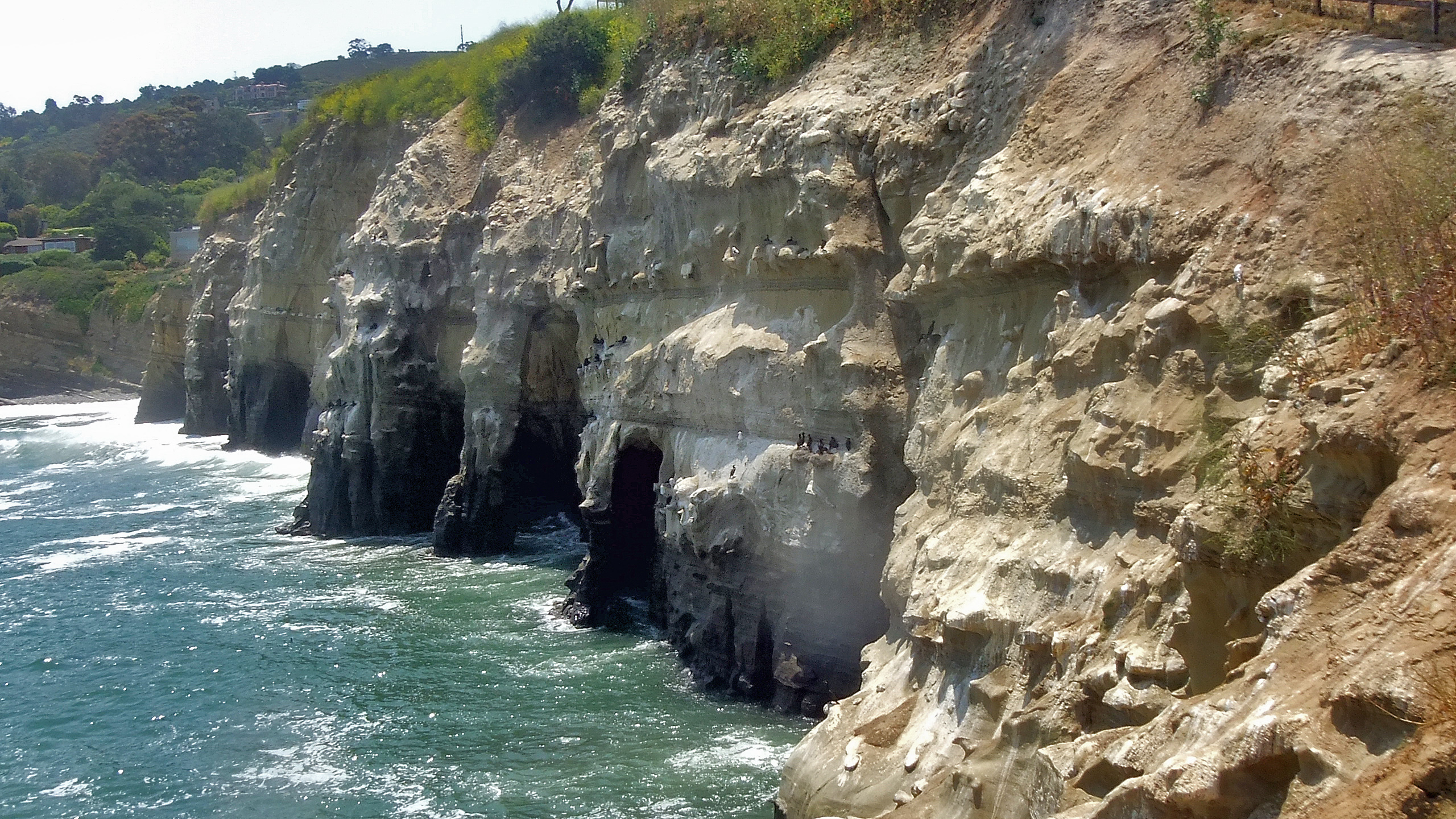 The "7 caves" of La Jolla. The most famous of these, Sunny Jim's, is the closest to the camera but out of view here.